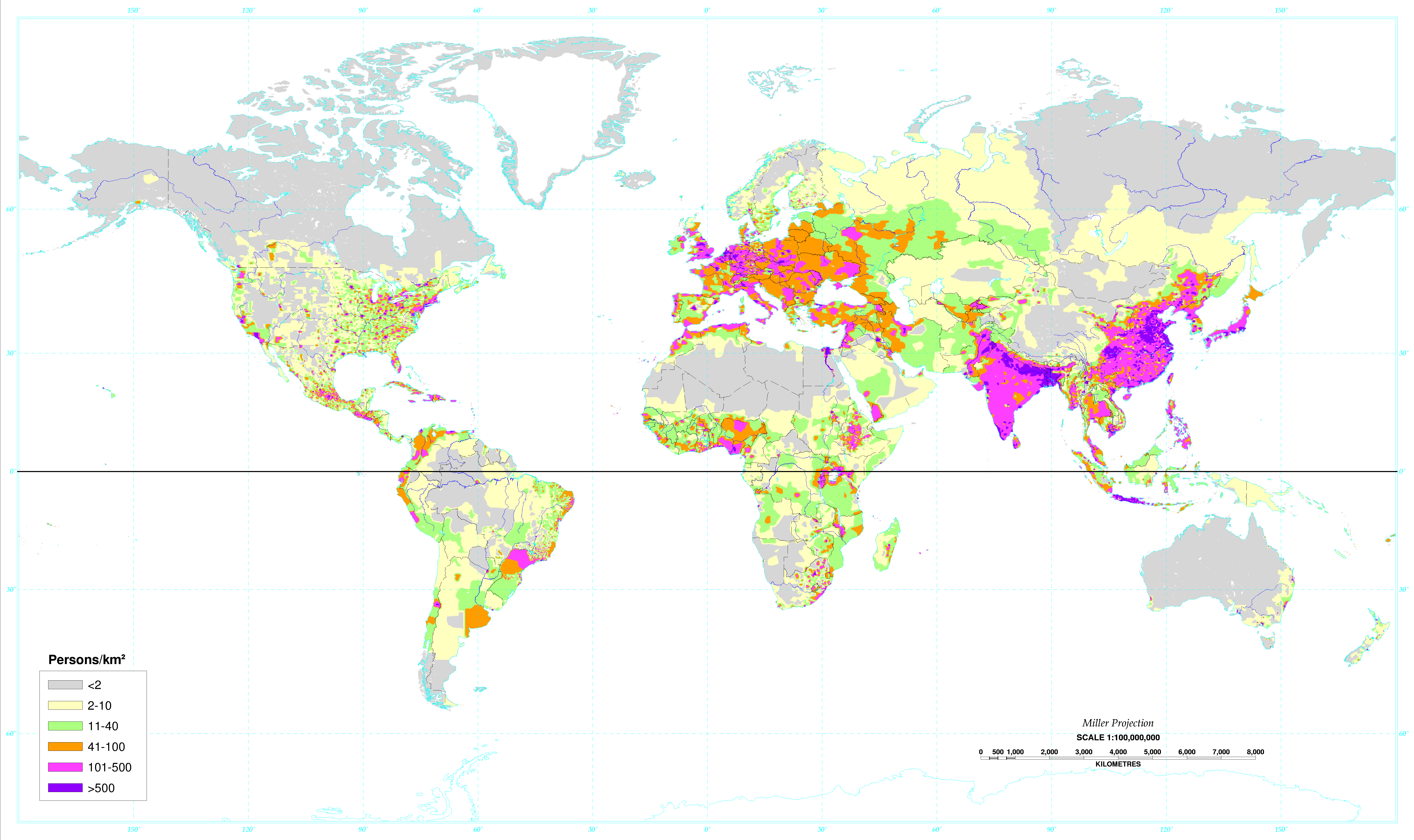 World map of the population density in 1994. (A more recent population density map can be found at This map clearly shows how the vast majority of the human population lives significantly north of the equator.